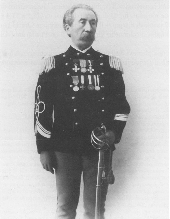 Photo of Virgilio Lerario (1836-1911), Orazio Lerario's son